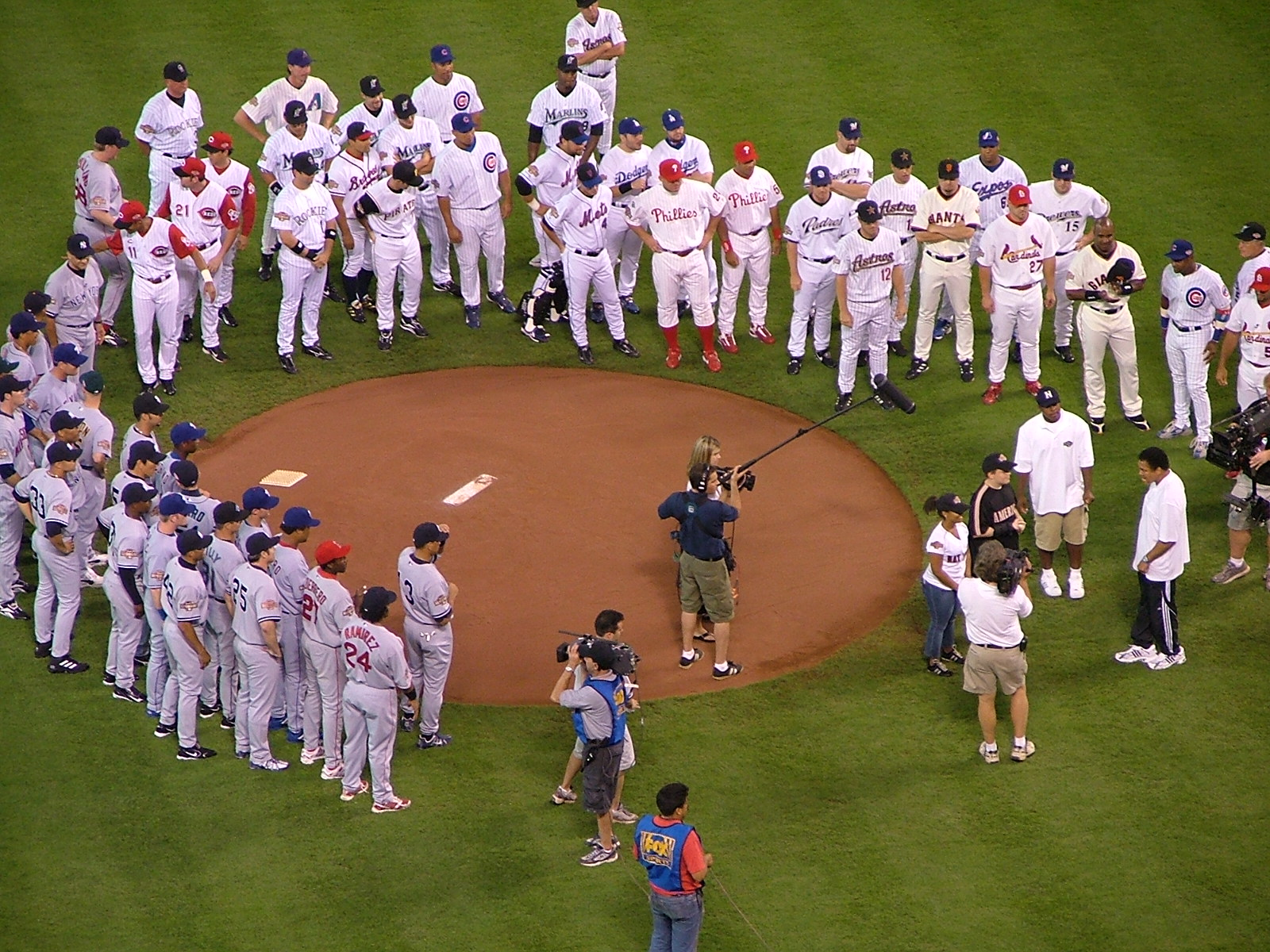 2004 Major League Baseball All-Star Game